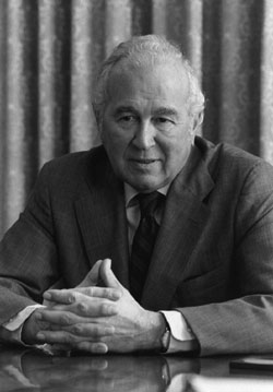 United States Ambassador Malcolm Toon.